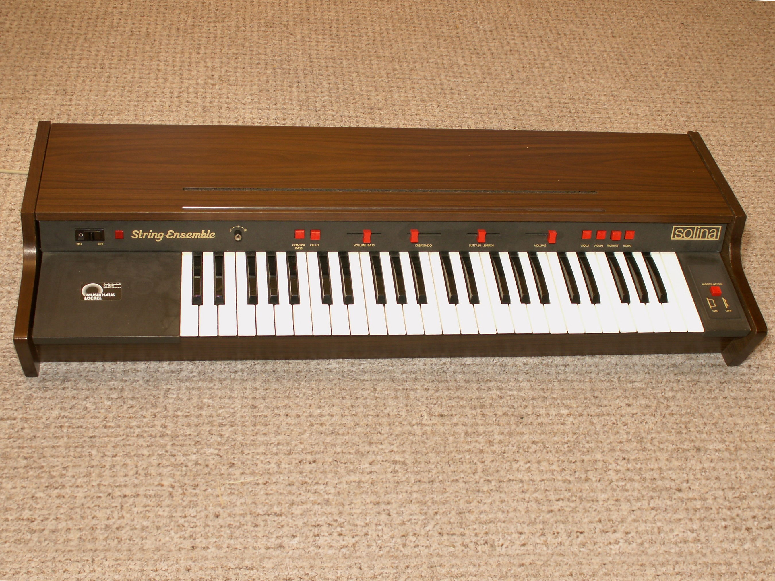 Arp/Solina String Ensemble Series 76 No. 01311202 Manufactured by B.V. Eminent, Bodegraven, Holland